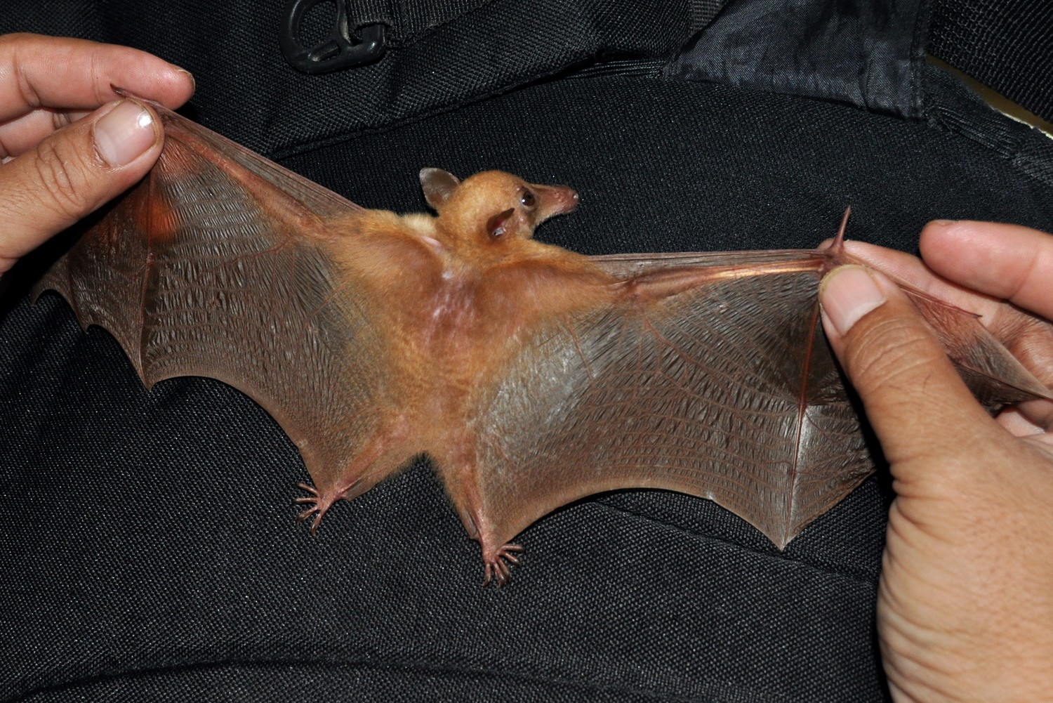 Greater long-tongued fruit bat (Macroglossus sobrinus), female, fore-arm 48 mm, from Darmaga, Bogor, West Java. Back view.